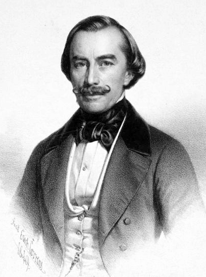 Austrian zither player and composer Johann Petzmayer (1803-1884). Lithograph by Erich Correns (1821-1877).